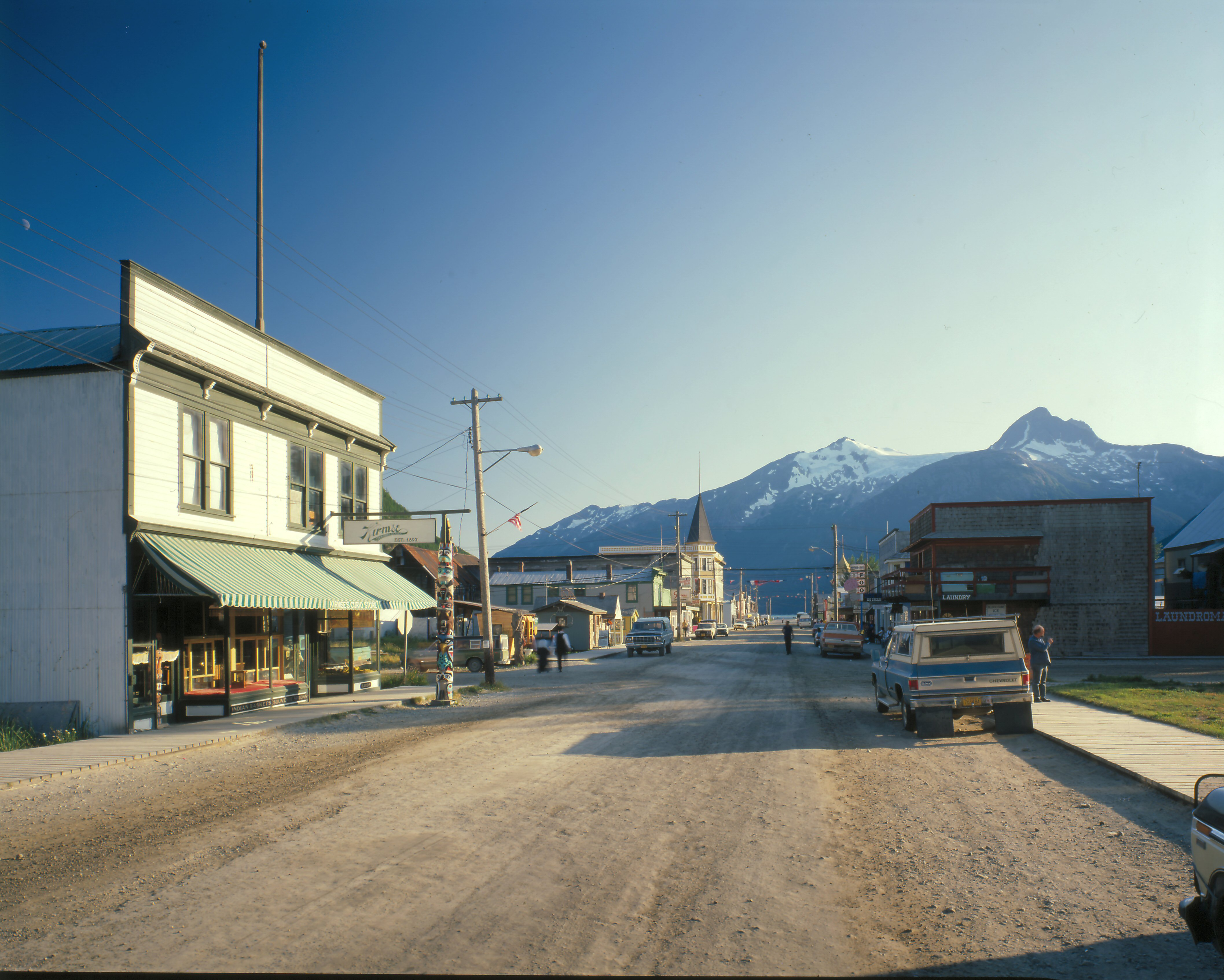 Broadway from near Second Avenue, looking northeast (1982) ak81